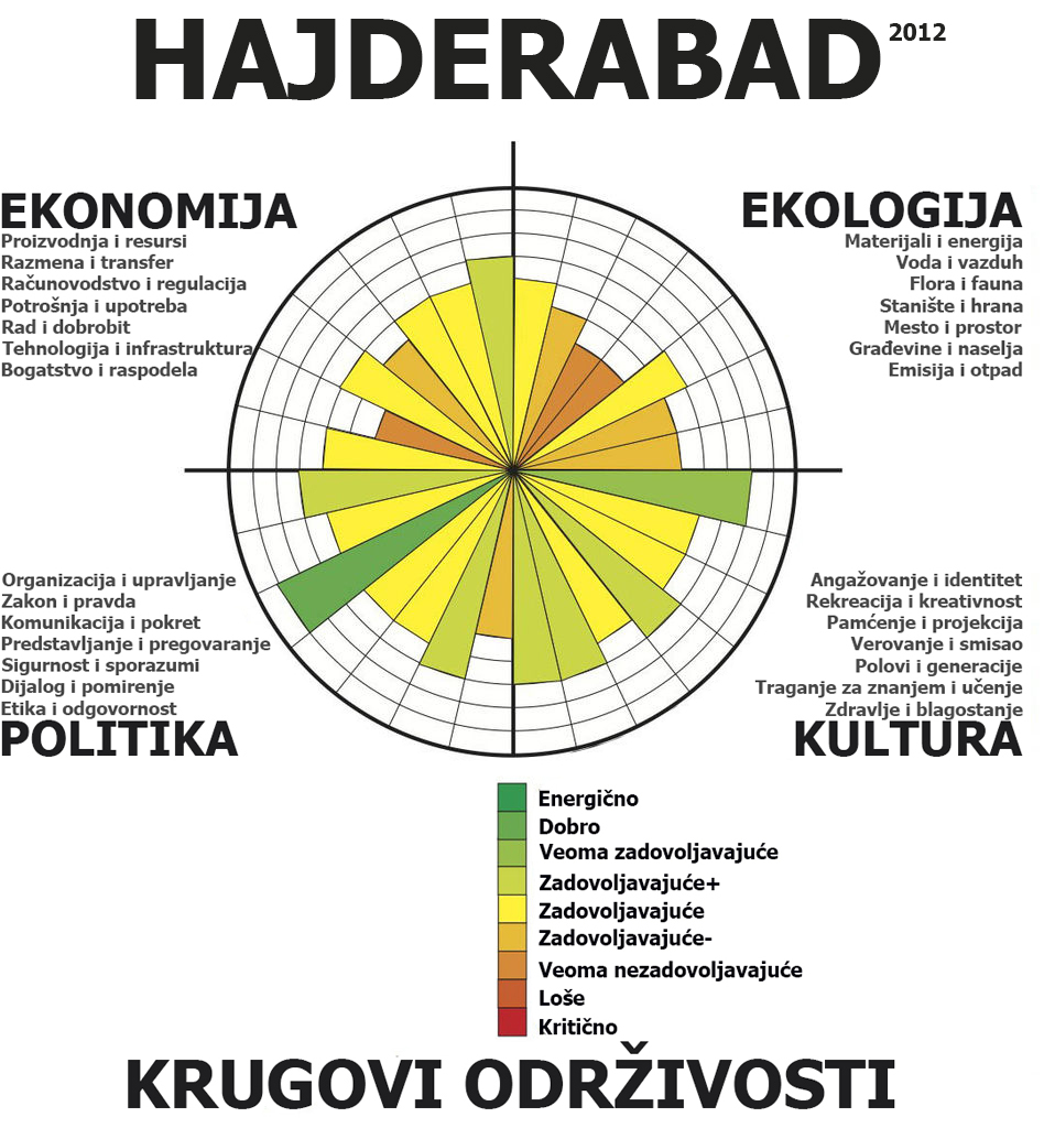 Profil urbanog dela Hajderabada, nivo 1, 2012.